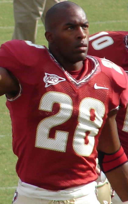 Lorenzo Booker of Florida State University on November 5, 2006.